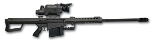 M107/M82A1 Long Range Sniper Rifle